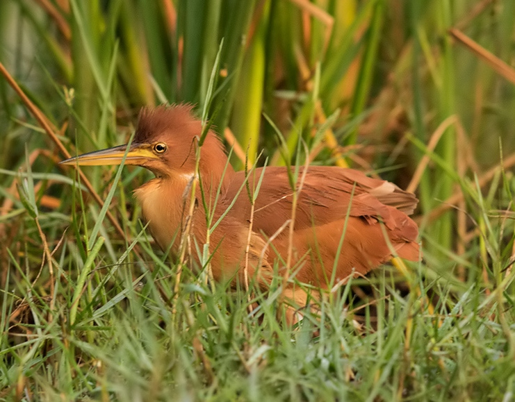 Cinnamon bittern in Mangalajodi, Odisha